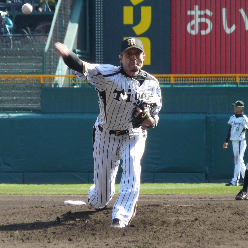 Hiroyuki Kobayashi, pitcher of the Hanshin Tigers, at Hanshin Koshien Stadium.